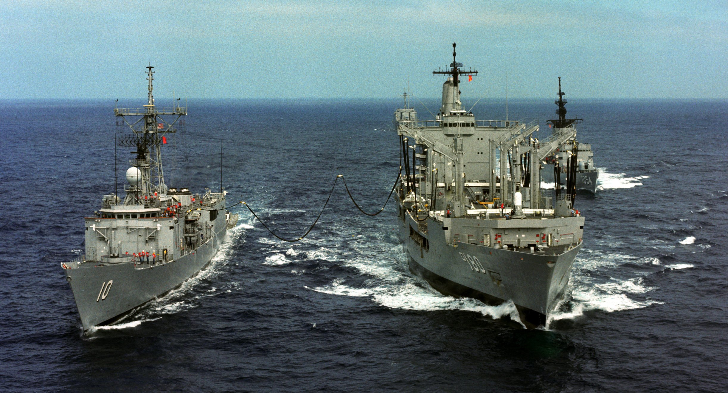 An aerial view of the US Navy (USN) Cimarron Class Oiler USS Willamette (AO-180) (center) as she services the USN Oliver Hazard Perry Class Frigate USS Duncan (FFG-10), (left) during an Underway Replenishment (UNREP) at sea as the USN Knox Class Frigate USS Gray (FF-1054) follows in trail. Exact date shot unknown.